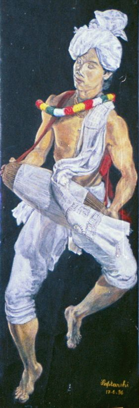 Study of a Manipuri Dancer Gouache with poster paints on black pastel paper, Painter: Saptarshi Mandal Date: 06.17.1996 size: 30inchx 11inch